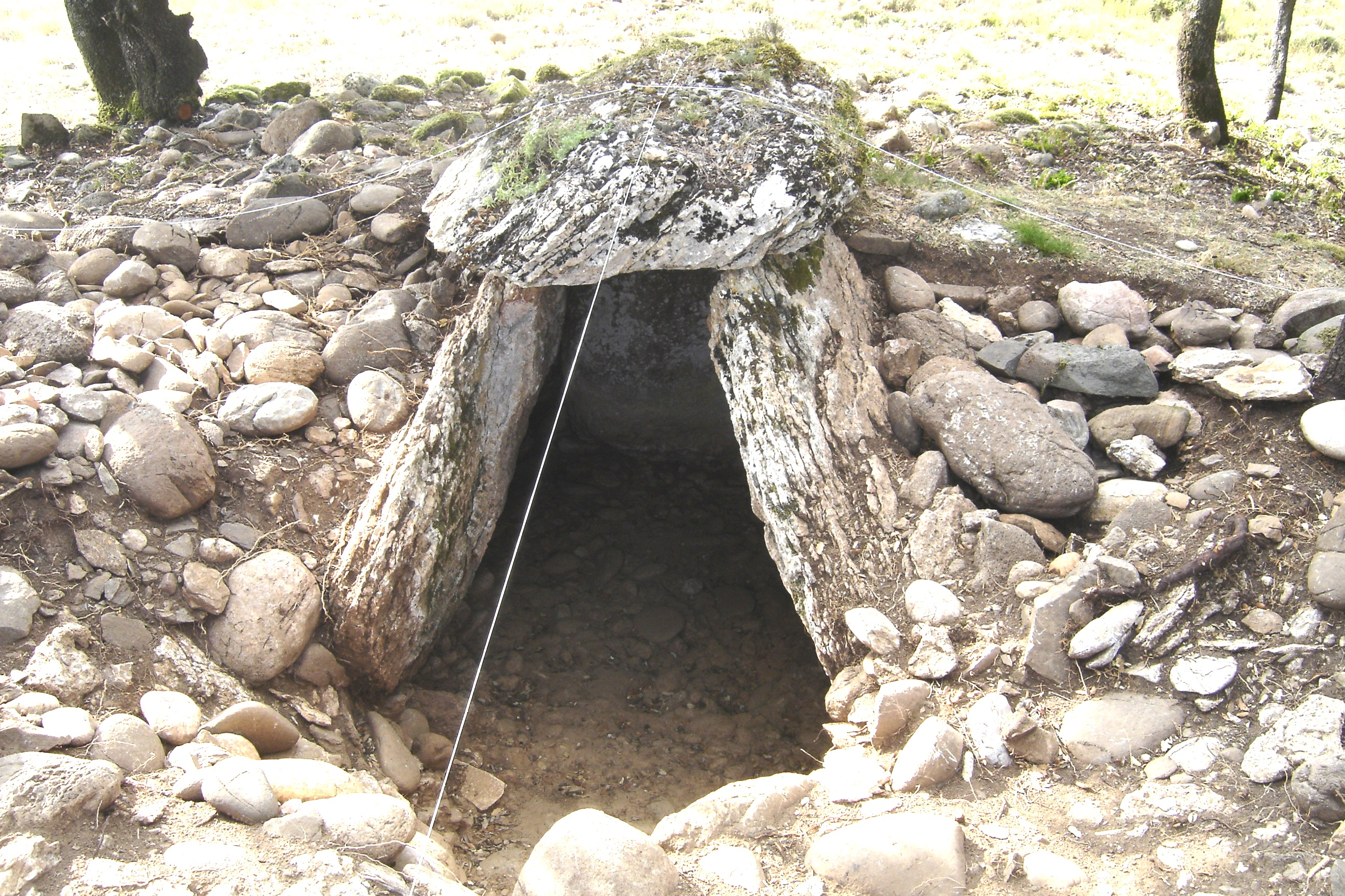 Caixa del Moro (Odèn).